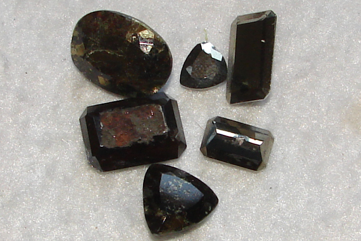 Arsenopyrite from Brazil. Gem cutting by Afonso Marques